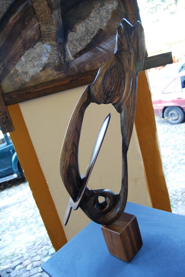 Sculpture called "love"